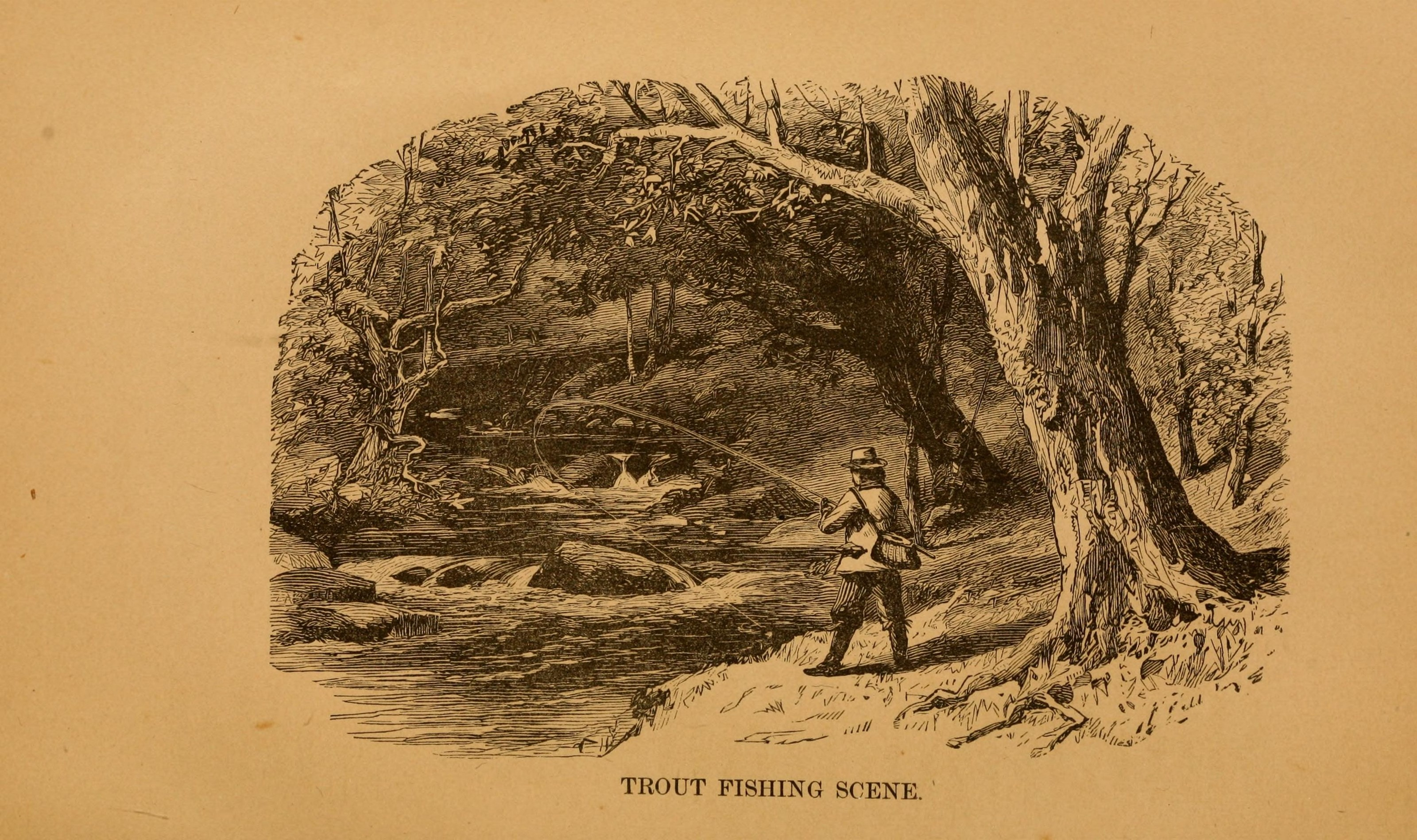 Natural history of western wild animals and guide for hunters, trappers, and sportsmen